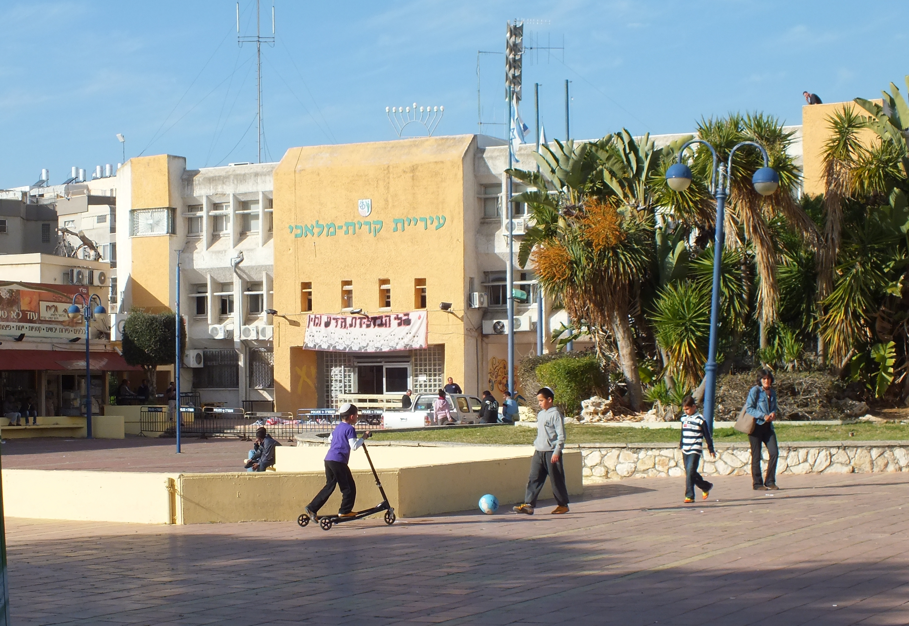 Kiryat Mal'achi town hall plaza.